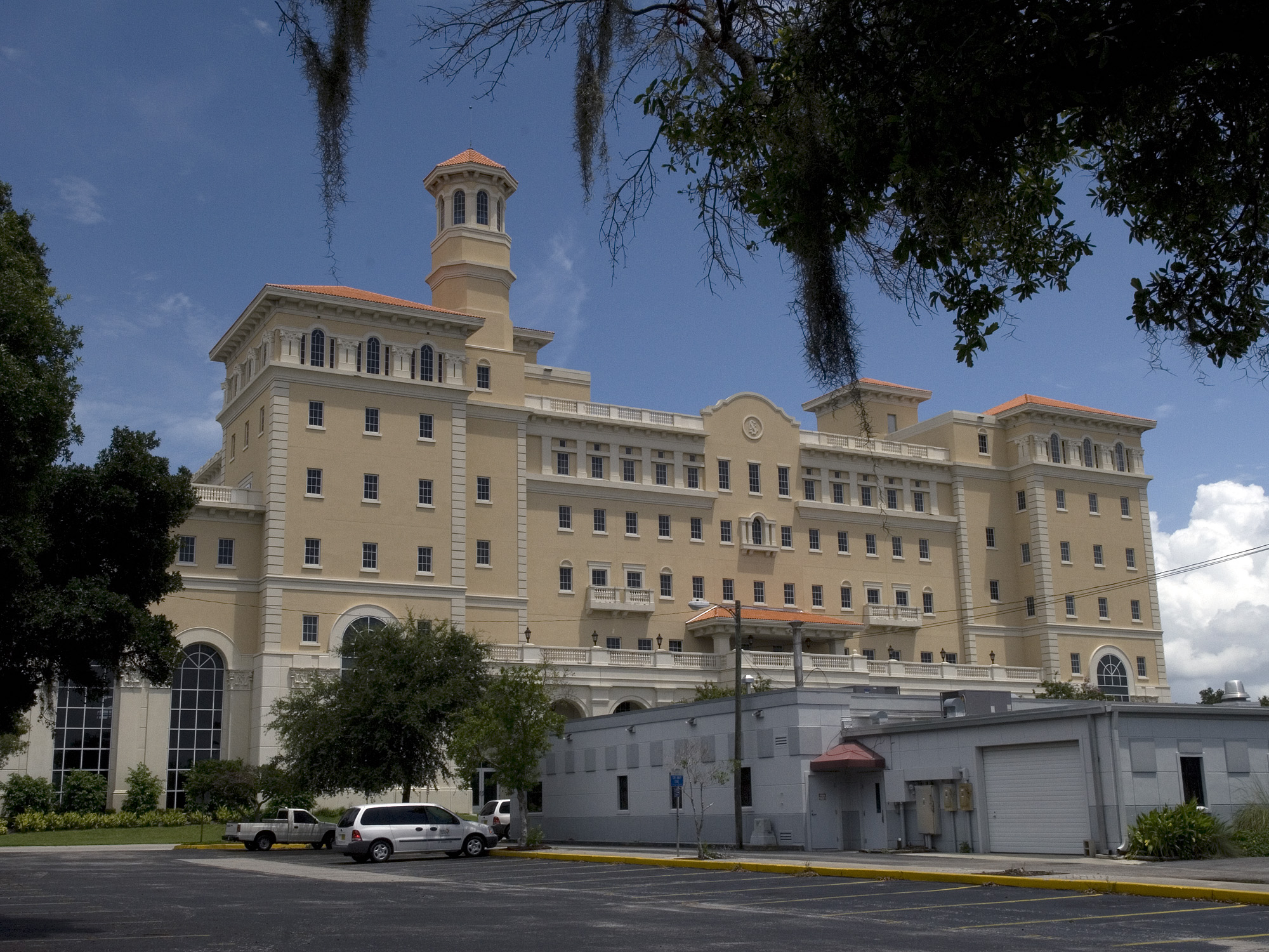 The eternally unfinished Super Power aka- Mecca building. For the seventh straight month of Anonymous global peaceful protests against the cult of scientology, each city chose its own theme. Anonymous in Clearwater, the heart of the malicious cult, favored Operation Party Harder.